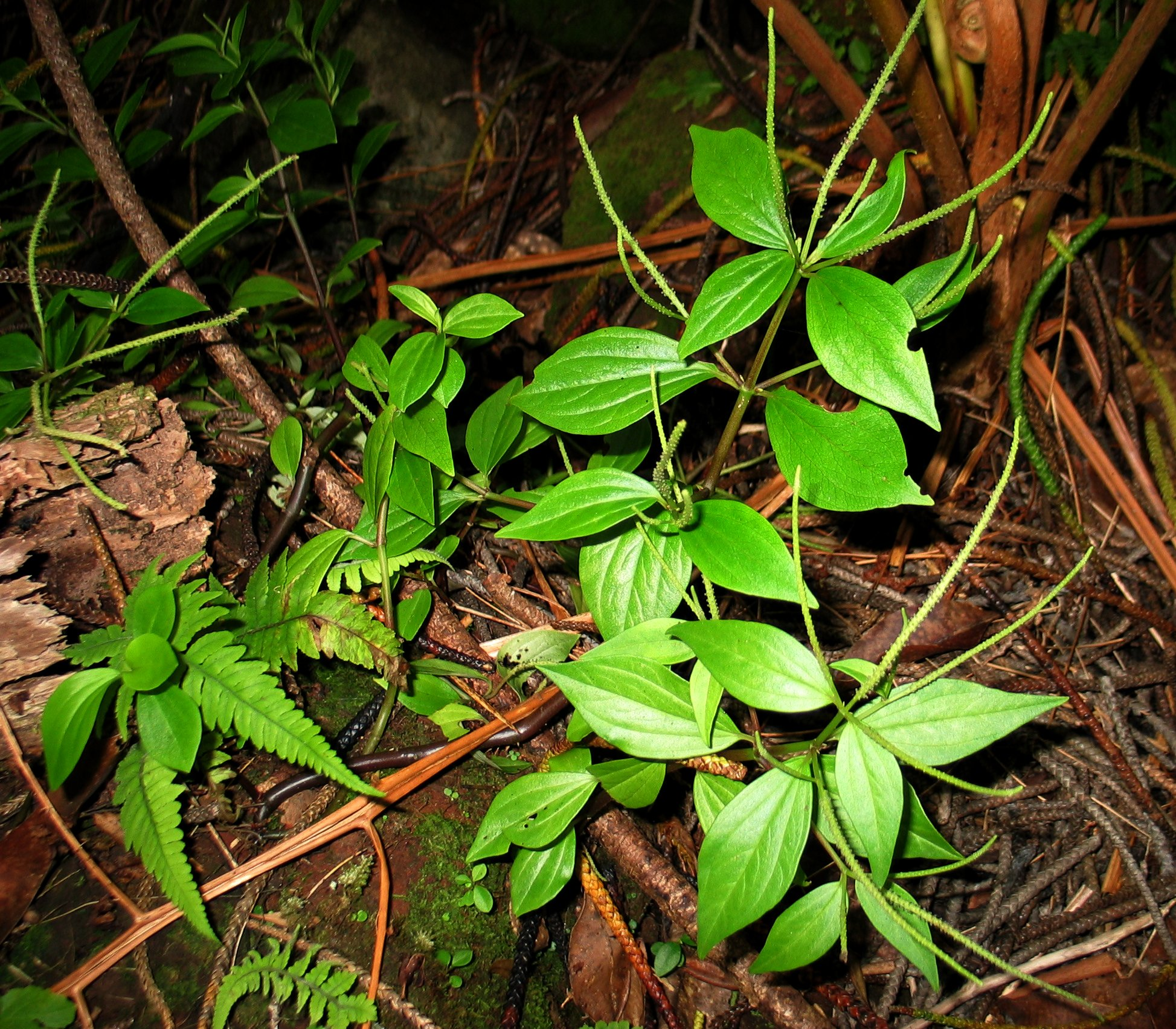 ʻAlaʻala wai nui or Woodland peperomia Piperaceae Endemic to the Hawaiian Islands Palikea, Oʻahu